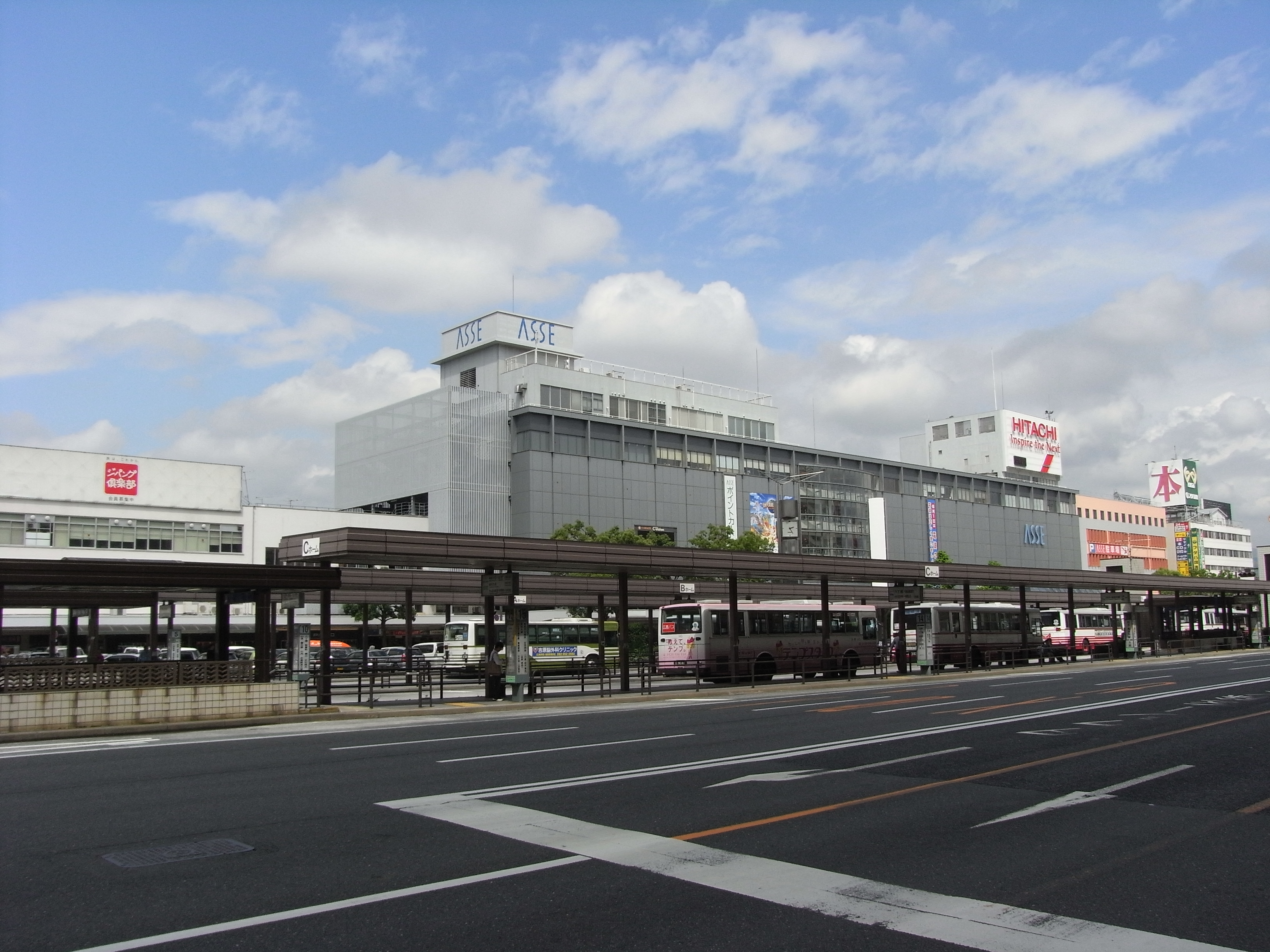 Hiroshima Station(広島駅)